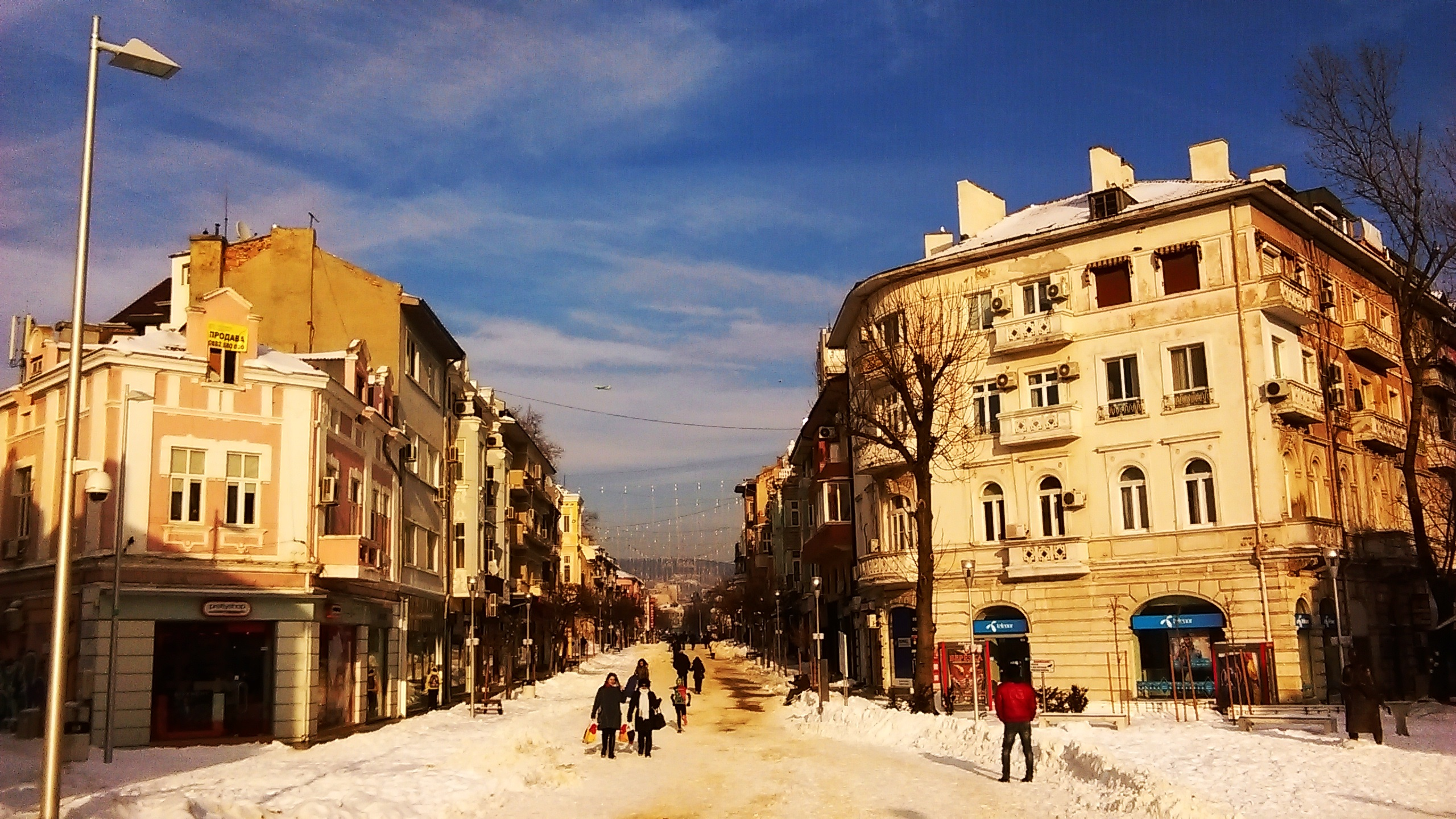 Knyaz Boris I Bld. and Voden Str.